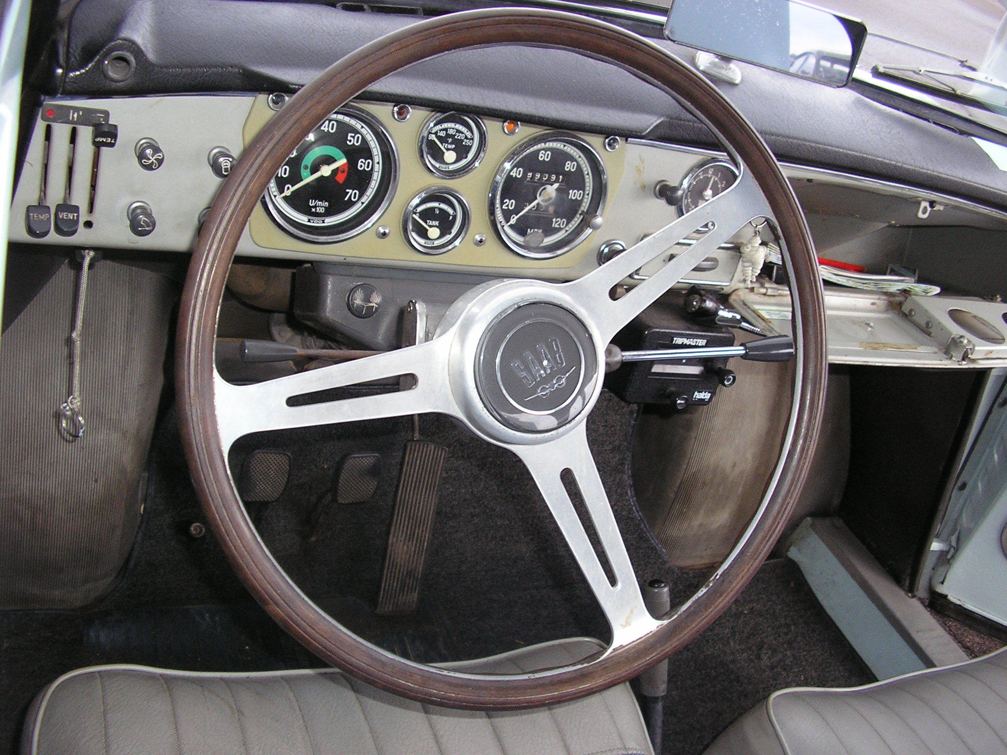 Interior in a SAAB GranTurismo 850. Notice the Halda Tripmaster (standard equipment on the GT cars) mounted to the right of the streering wheel. Photographed at the International SAAB Club Meeting 2006.